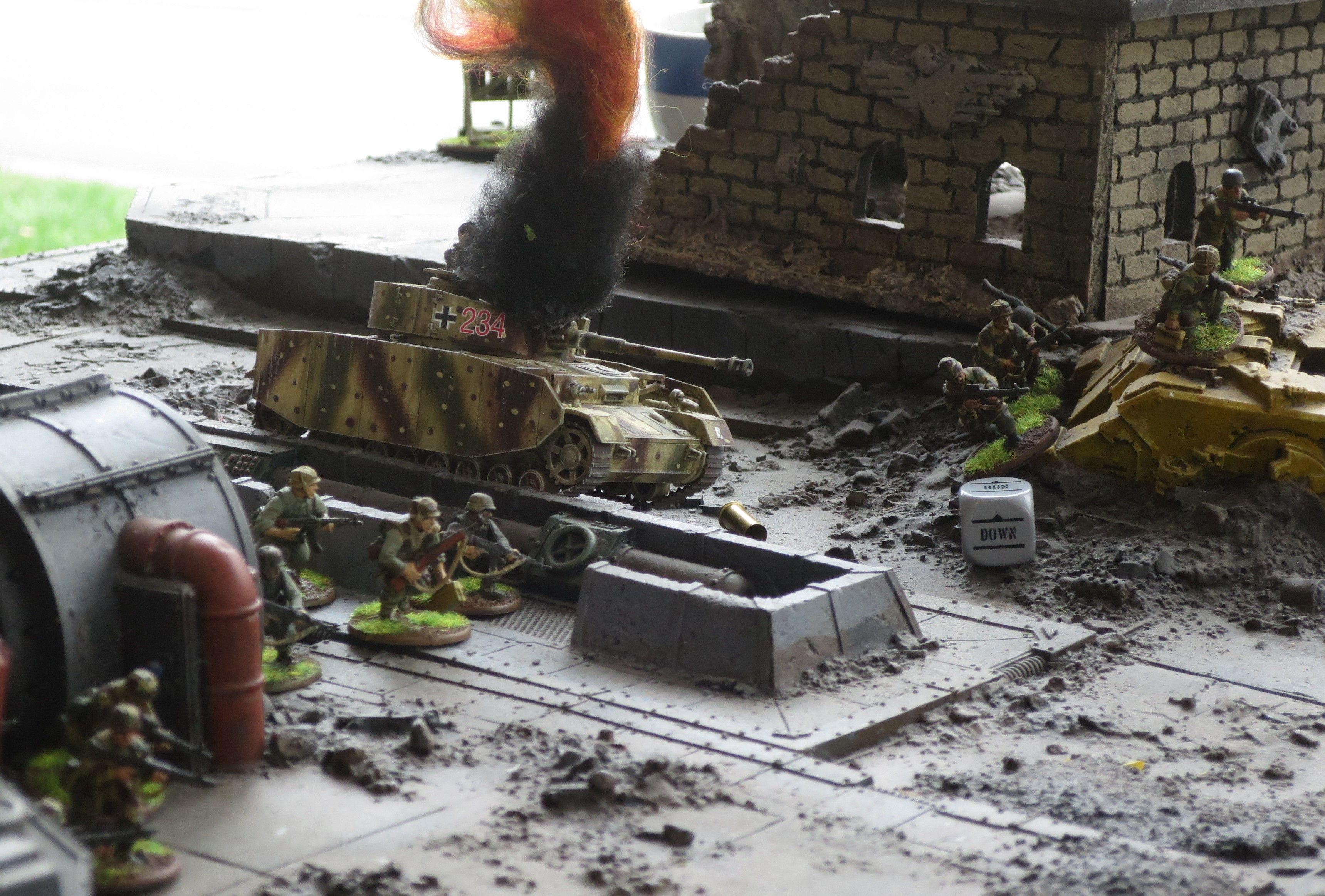 Scene from a Bolt Action game played on a tournament in Bremen.